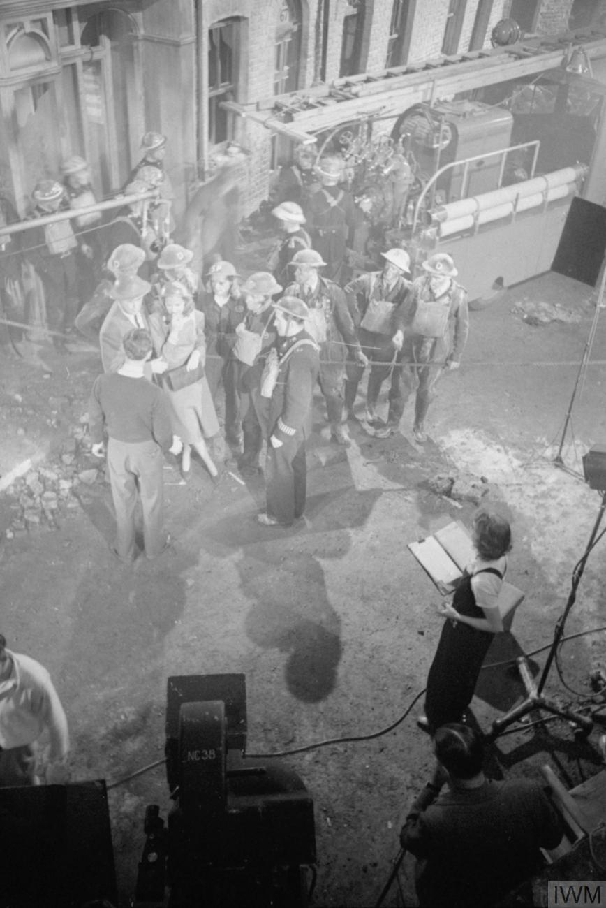 Afs Film Actors- the Filming of 'unpublished Story' at Denham Film Studios, Denham, Buckinghamshire, England, UK, 1941 Director Harold French (left) gives final instructions to the actors on the set of 'Unpublished Story' at Denham Film Studios. The stars of the Two Cities Film Company film, Richard Greene and Valerie Hobson, can just be seen listening to Harold French amongst a group of Auxiliary Film Service extras. In the right foreground, the continuity girl can be seen, keeping track of the proceedings.